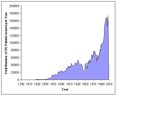 US Patents Issued per year, 1790-2008